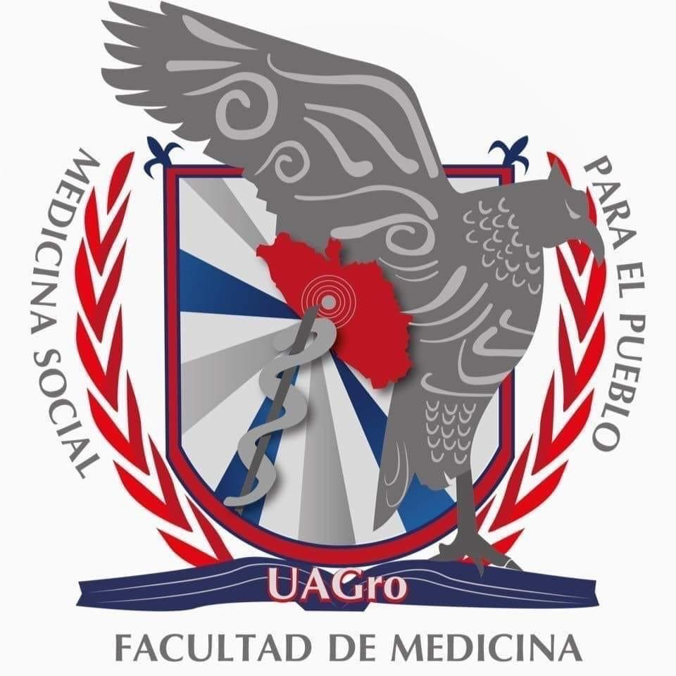 Facultad de Medicina de la Universidad Autónoma de Guerrero